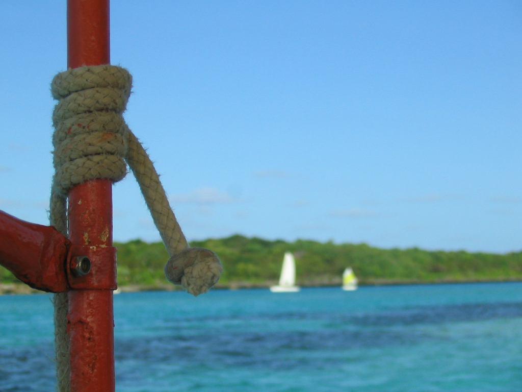 Mahébourg, Mauritius, 2009.